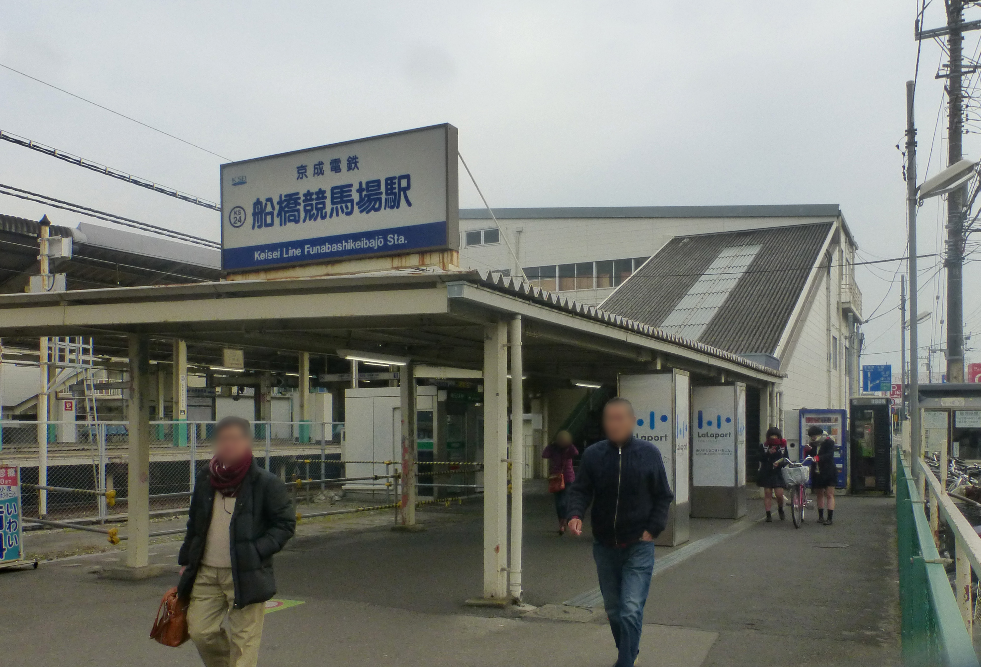 The south entrance to Funabashi-Keibajo Station on the Keisei Main Line in Chiba Prefecture, Japan